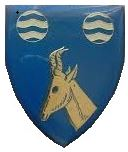 SADF era Hartebeespoort Commando emblem